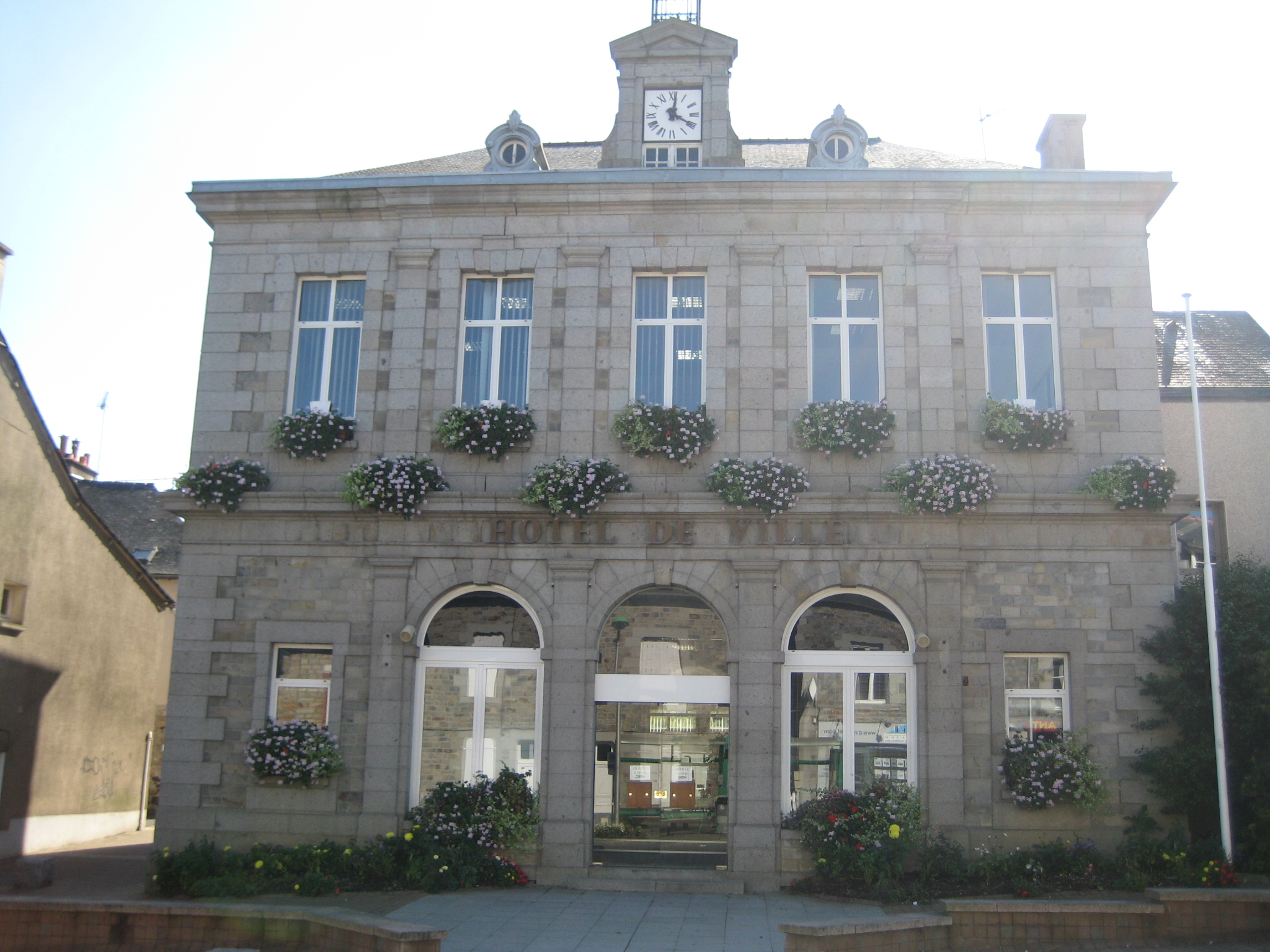 Liffré, Town hall